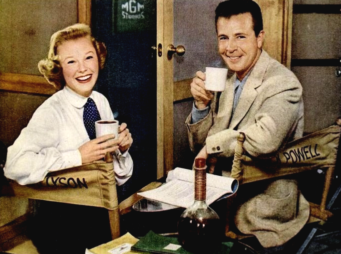 Photo of June Allyson and Dick Powell taking a coffee break on the MGM set in 1952.